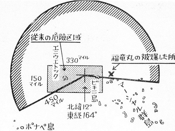 Map showing the expansion of A-test danger zone notified by U.S. on 19 March 1954